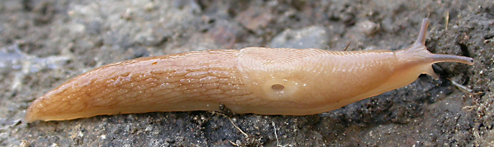 Photo of Deroceras reticulatum